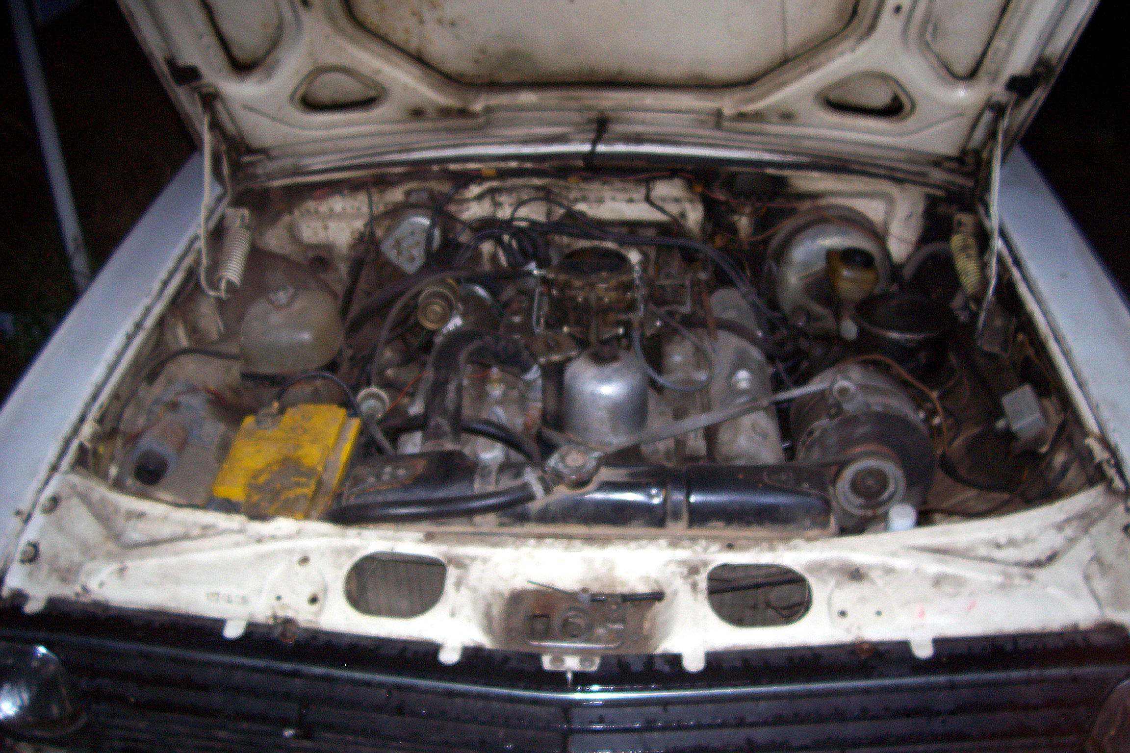 GAZ-24-34 engine compartment